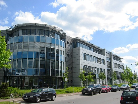 Cookson Electronics Langenfeld